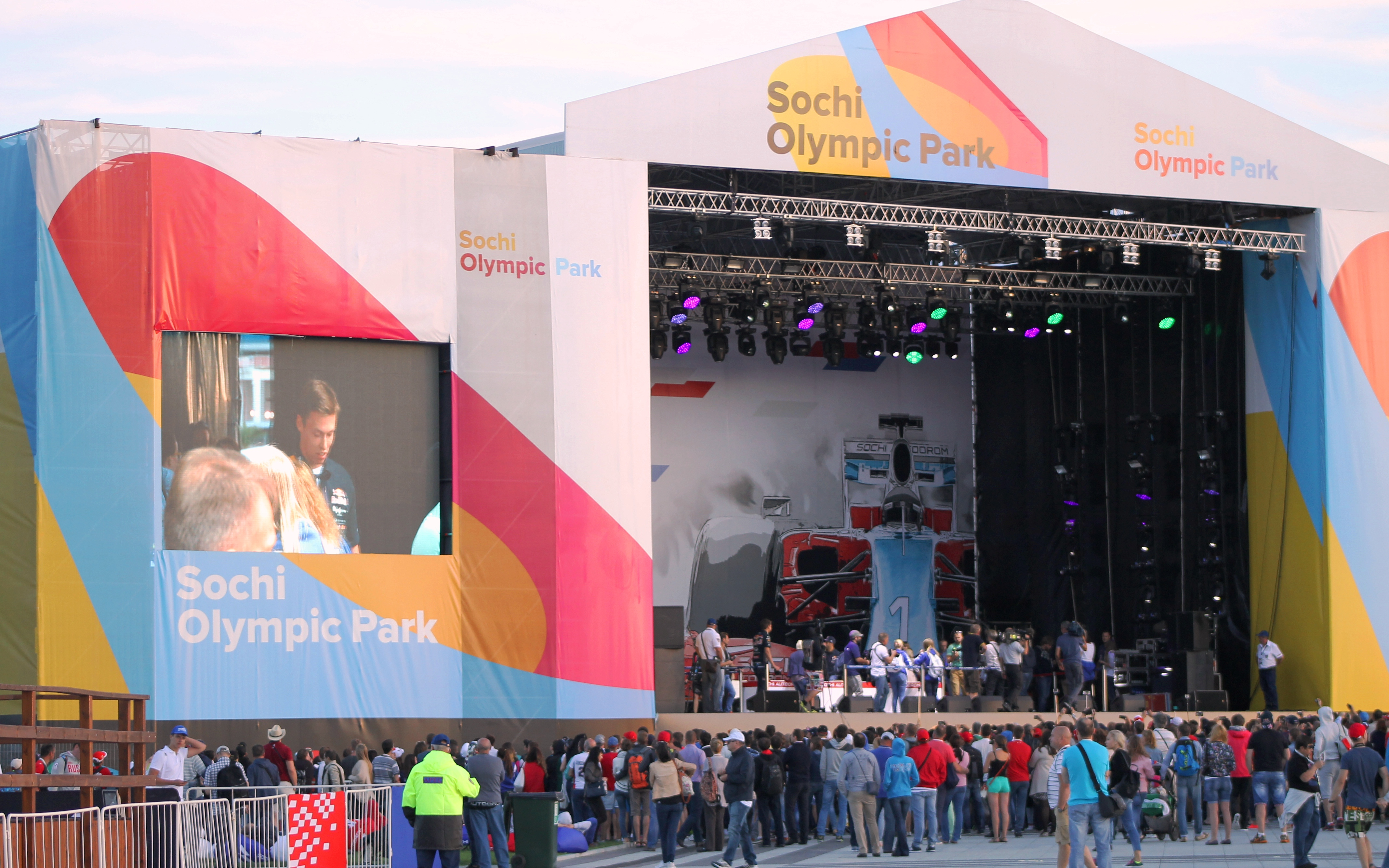 Driver's autograph session in Sochi Olympic park. 2015 Formula 1 Russian Grand prix, Sochi.